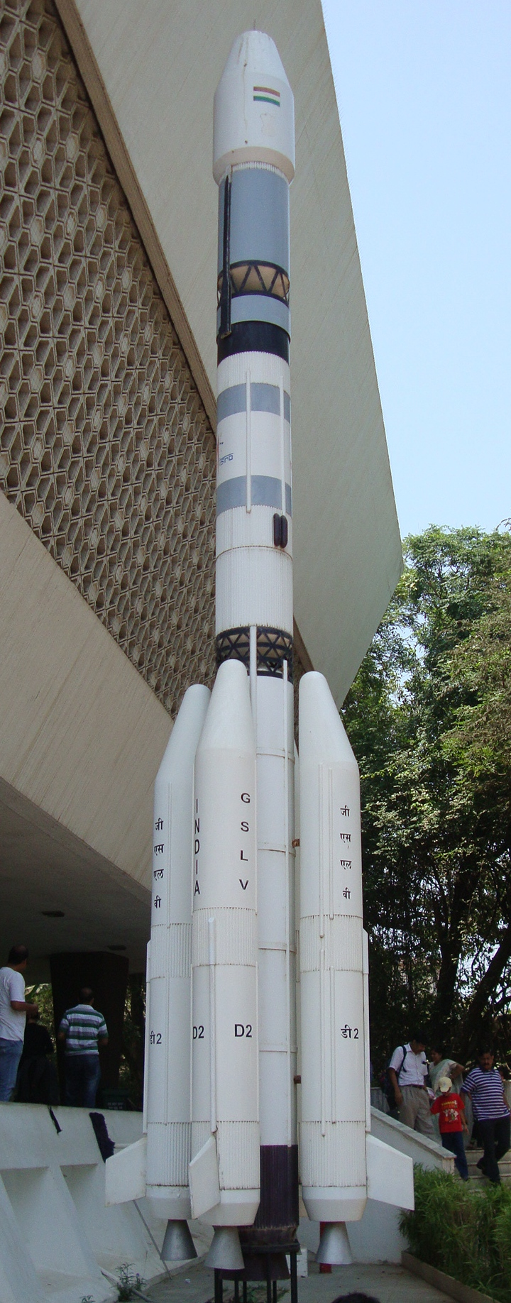 10:1 scaled down model of gslv at Nehru planetarium in mumbai